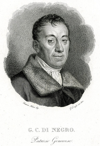 Gian Carlo Di Negro (1769—1857